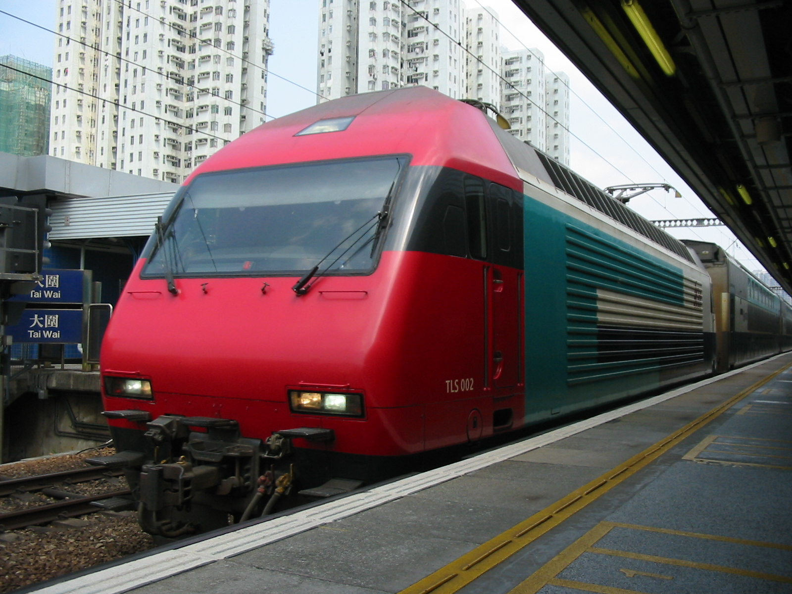 A KTT through train passing through Tai Wai station.